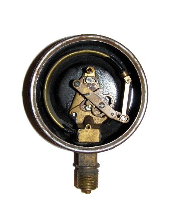 I am an author of this picture. This is the construction of Bourdon Tube.